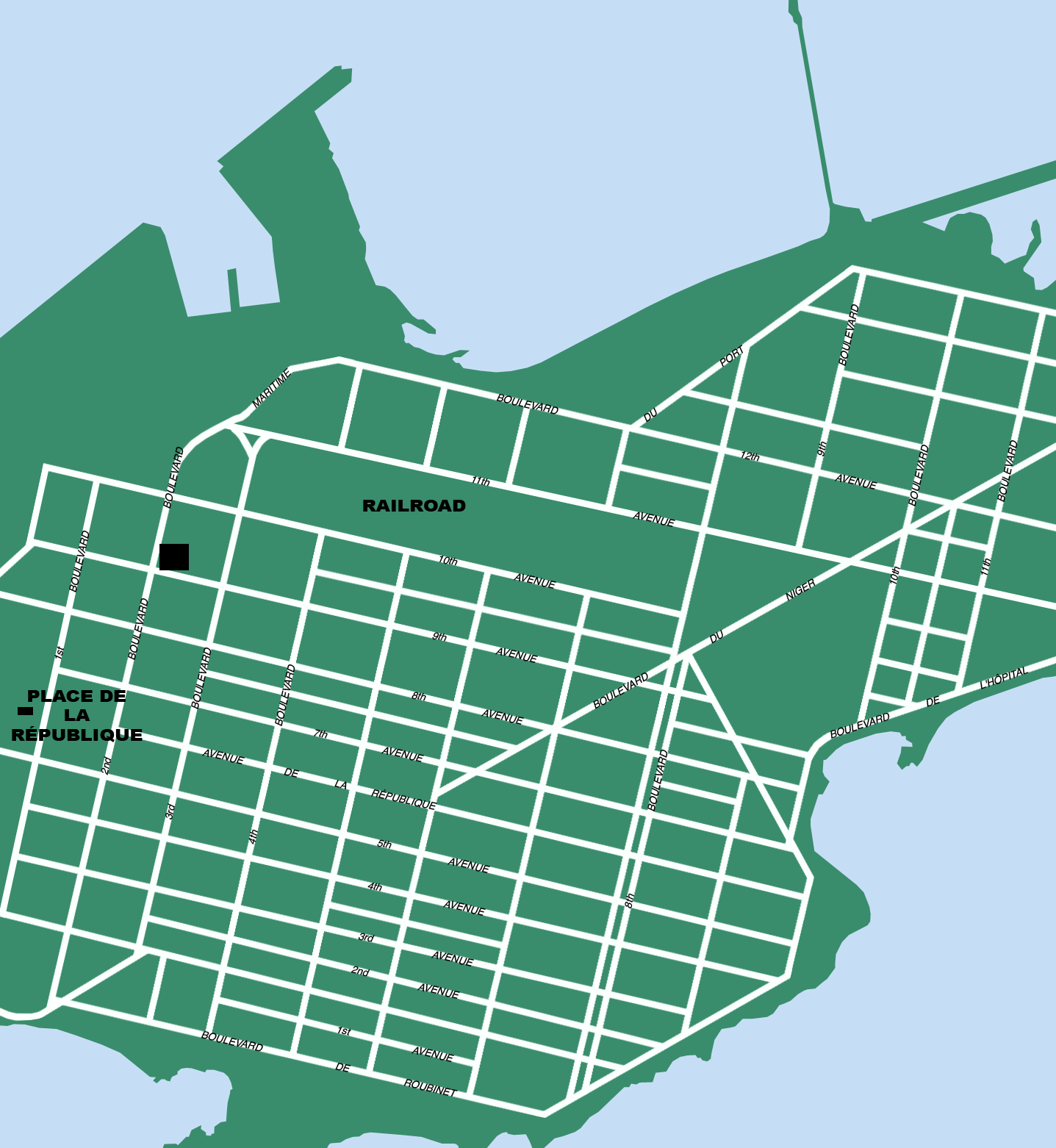 CIA World factbook map of Conakry (new town only, colored by uploader)